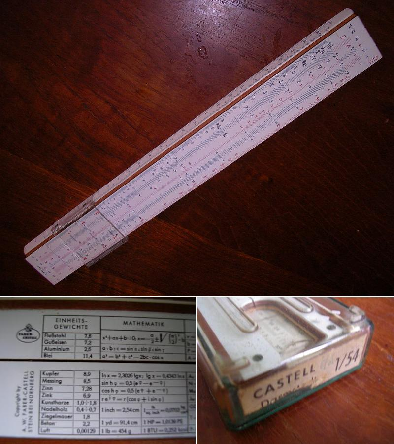 Slide rule, System Darmstadt (Germany)